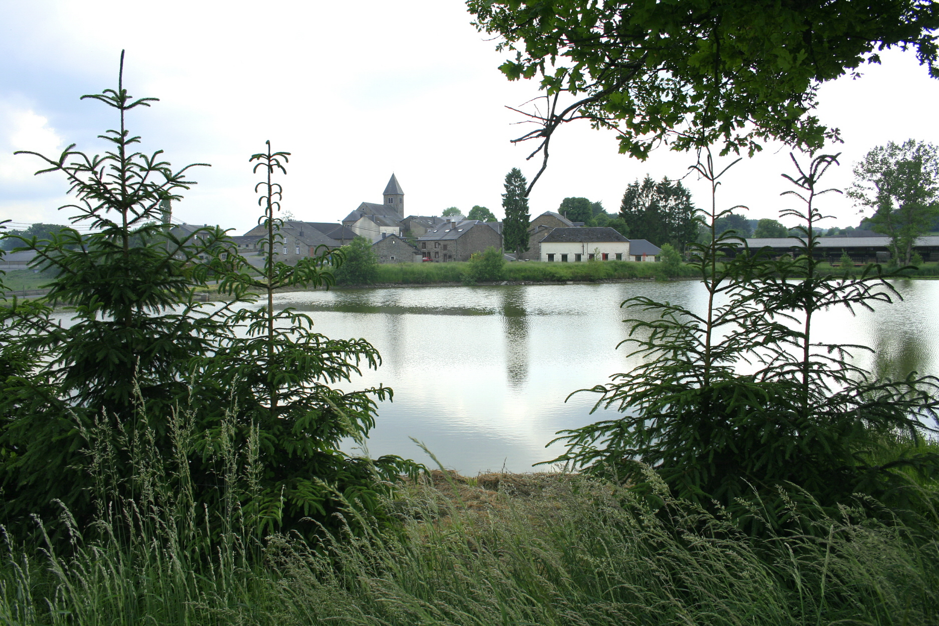 Naomé (Belgium), the pond of the village.